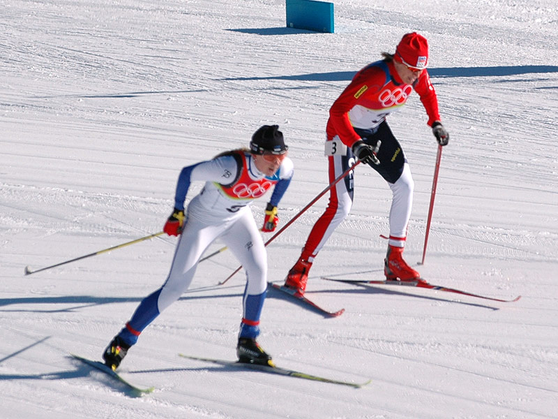 Kristina Šmigun and Katerina Neumannova at the 2006 Winter Olympics in Torino.